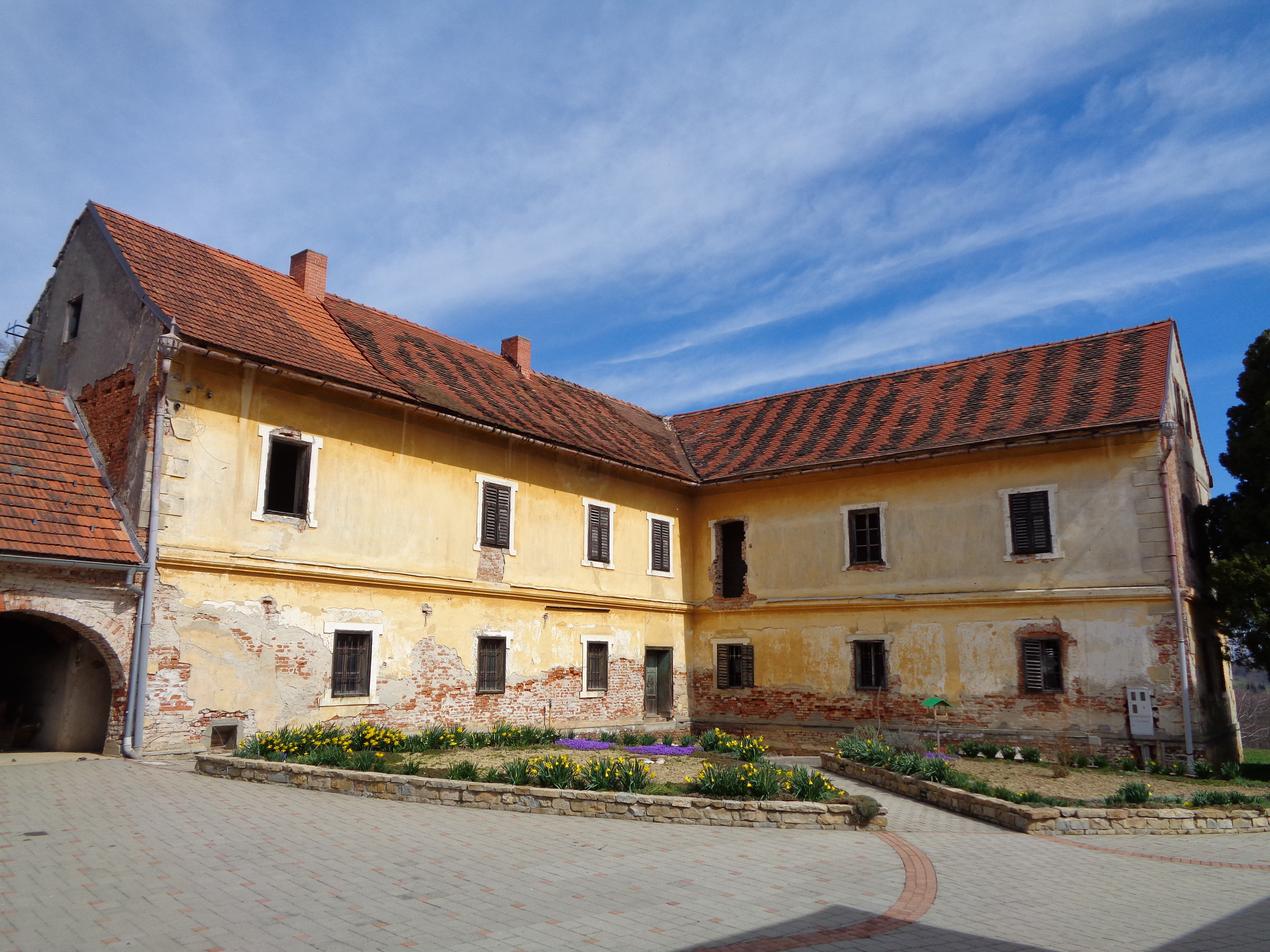 Zichy-Terbocz Manor in Železna Gora, Medjimurje County (Croatia) - west view